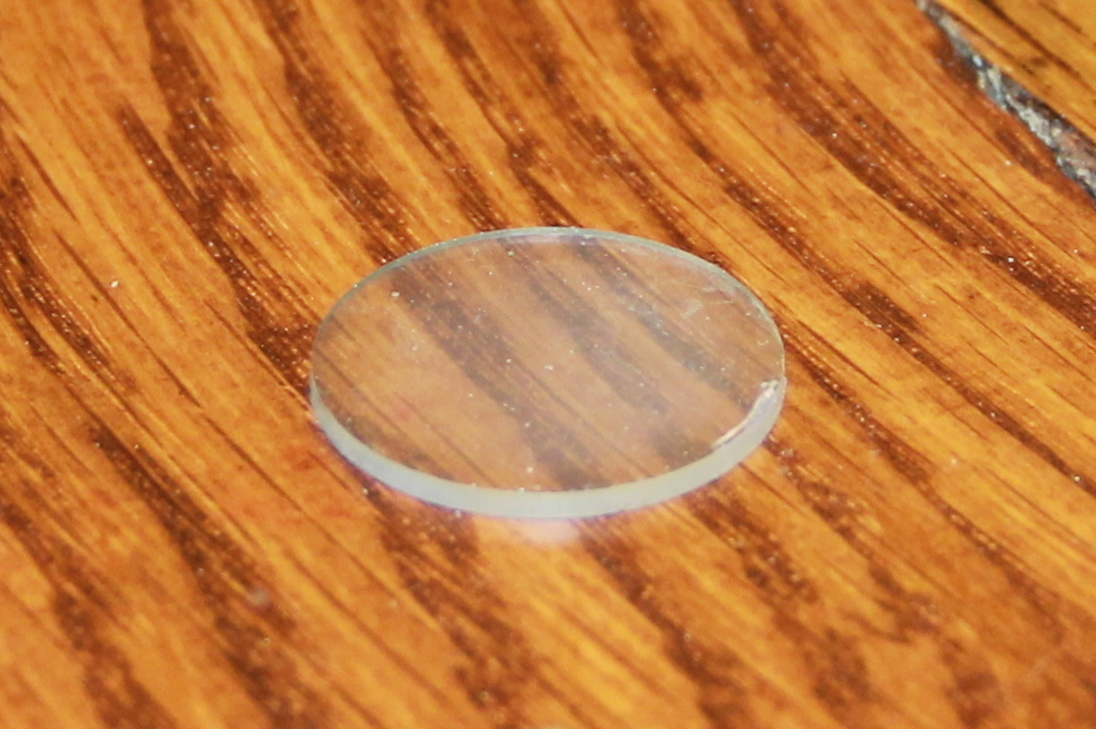 Yttralox transparent ceramic sample sitting on a wooden table. Photo taken at the home of Richard C. Anderson, inventor of Yttralox, in Missoula, MT, 2014.